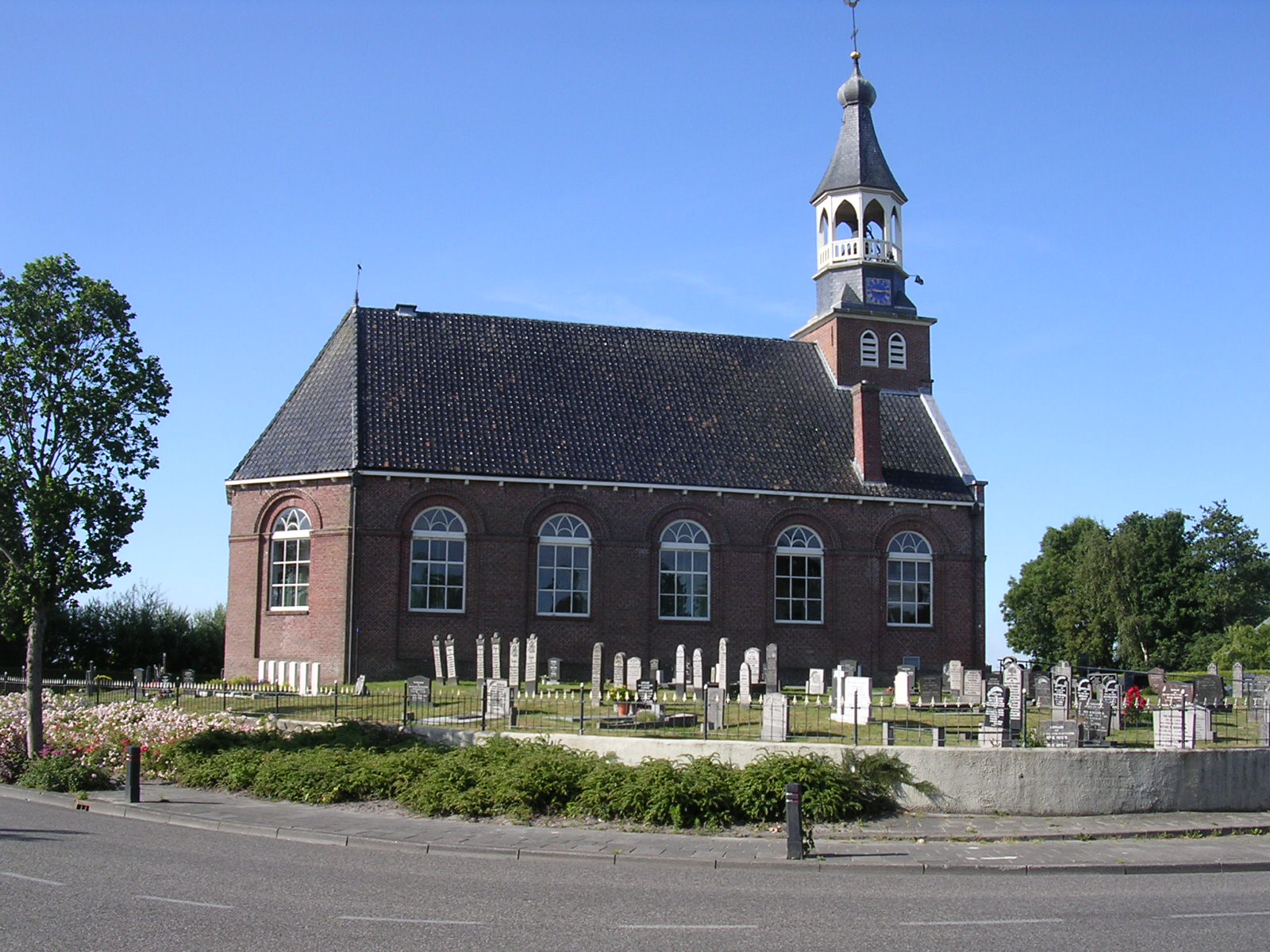 Church of Akkerwoude, former village, now part of Damwâld